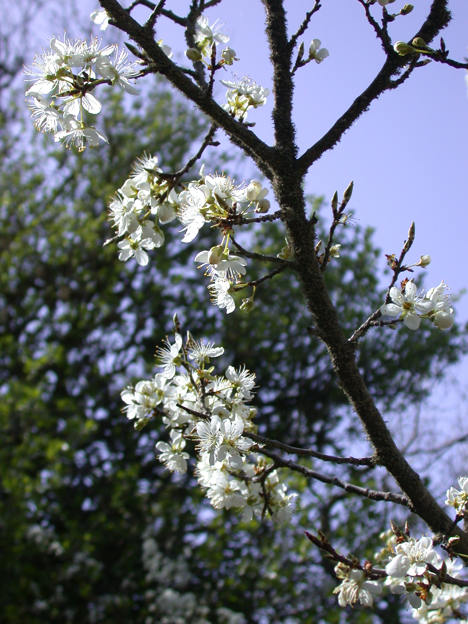 Blossom of Prunus ursina Kotschy, Mount Meron, Upper Galilee, Israel, March 21, 2006.